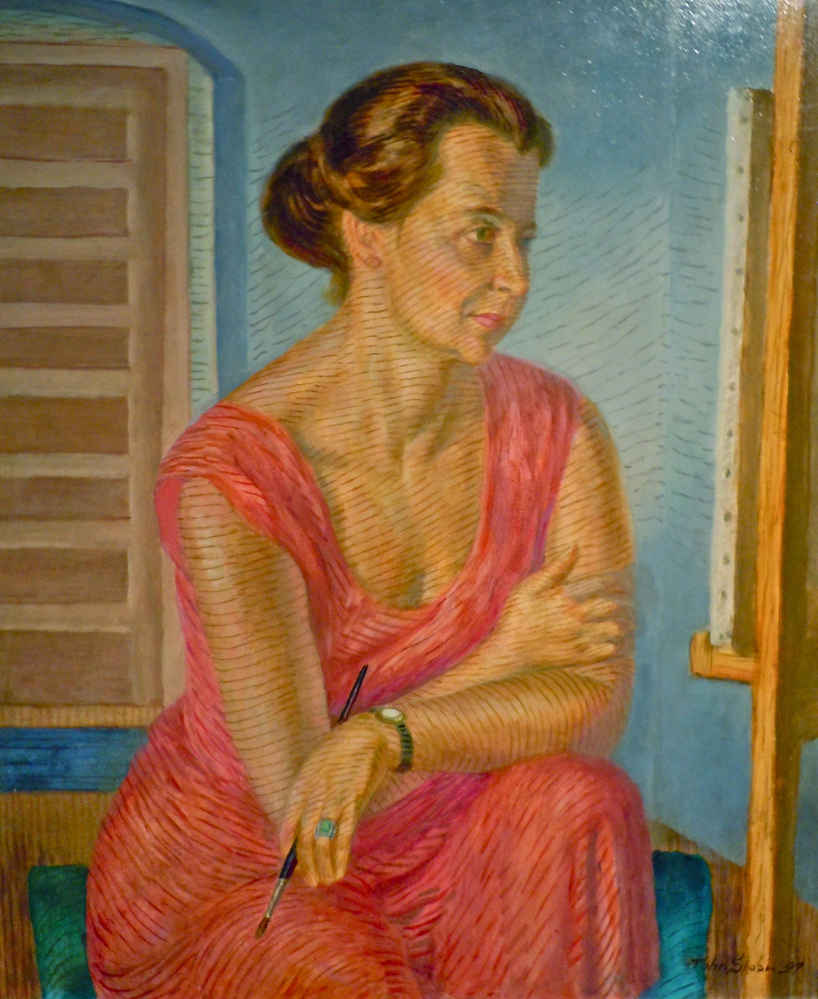 Helen Parr Sloan, 2nd wife of the painter John French Sloan, as displayed at the Delaware Art Museum which owns the painting and the copyright. (as described by the information posted next to the painting at the Delaware Art Museum) Helen at the Easel is one of many portraits Sloan painted of his second wife Helen Parr Sloan whom he married in 1944....""